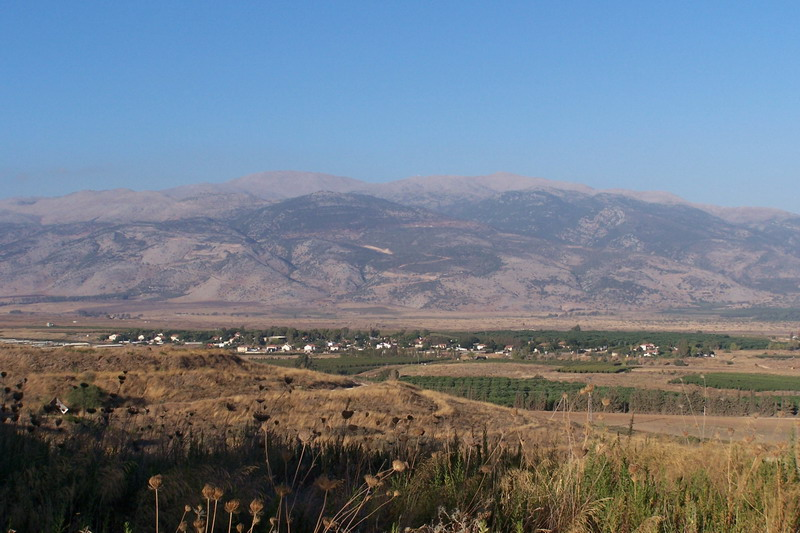 Mount Hermon